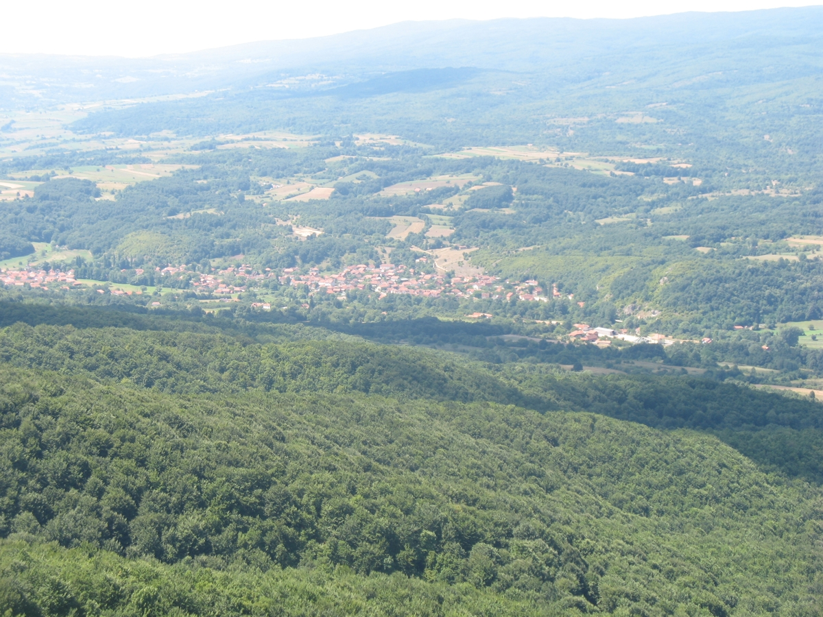 View on Lukovo from Rtanj mountain,Serbia.